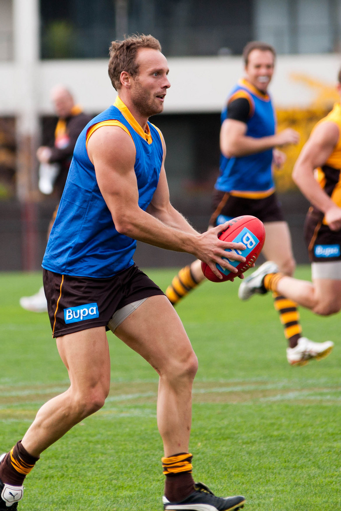 Brad Sewell of the Hawthorn Hawks at an open training session in 2011